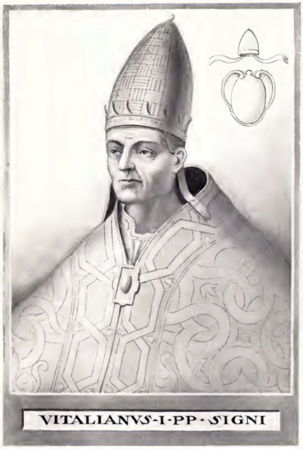 This illustration is from The Lives and Times of the Popes by Chevalier Artaud de Montor, New York: The Catholic Publication Society of America, 1911. It was originally published in 1842.